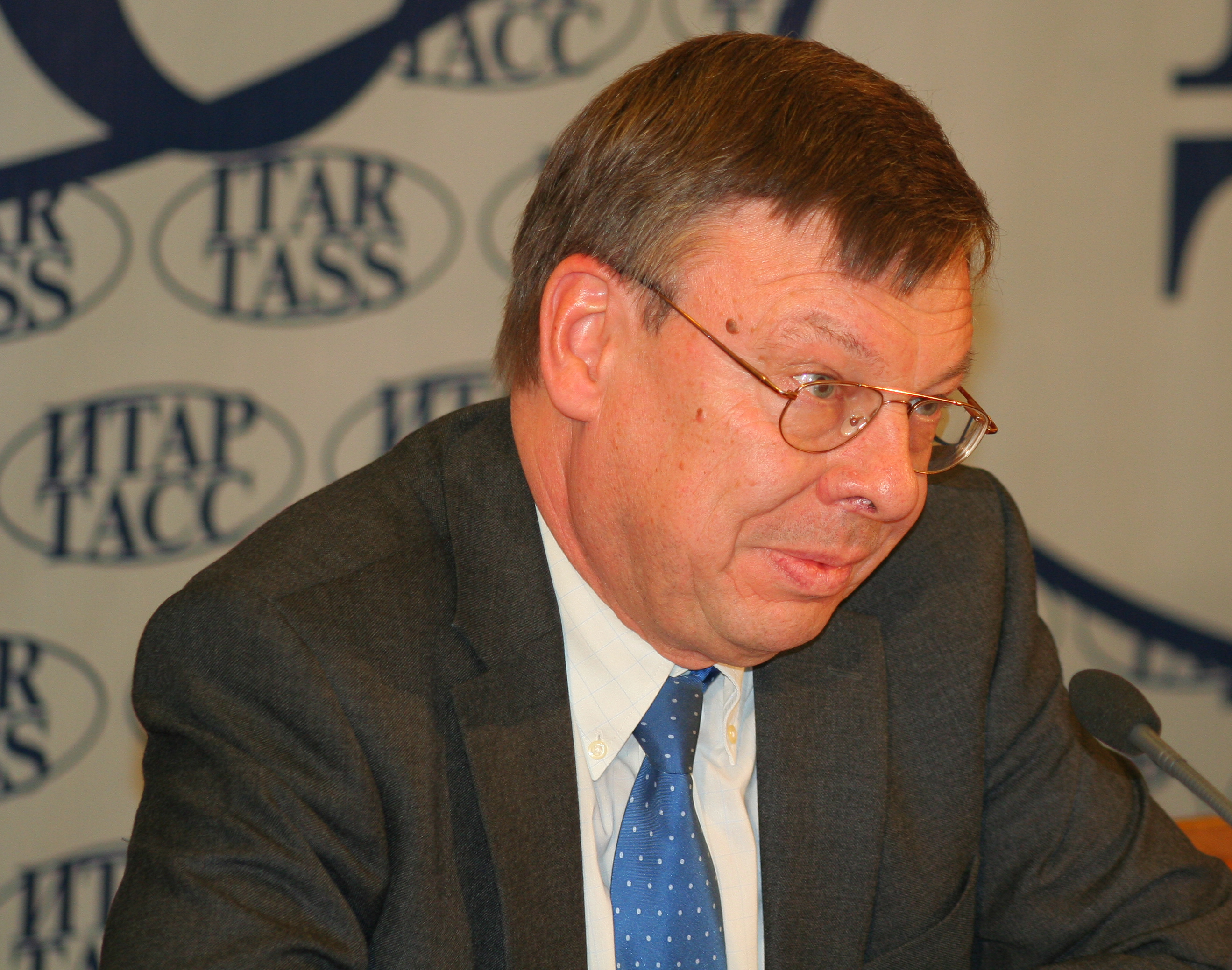 German ambassador in Russia, Ulrich Brandenburg, during a press conference in Moscow